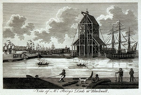 The Blackwall shipyard, begun in the late 16th century, continued, under various owners, to repair and build ships, particularly for the East India Company, throughout the 17th and 18th centuries. By the late 18th century, Perry's yard, as the Blackwall establishment was then known, was the biggest private yard in the world.